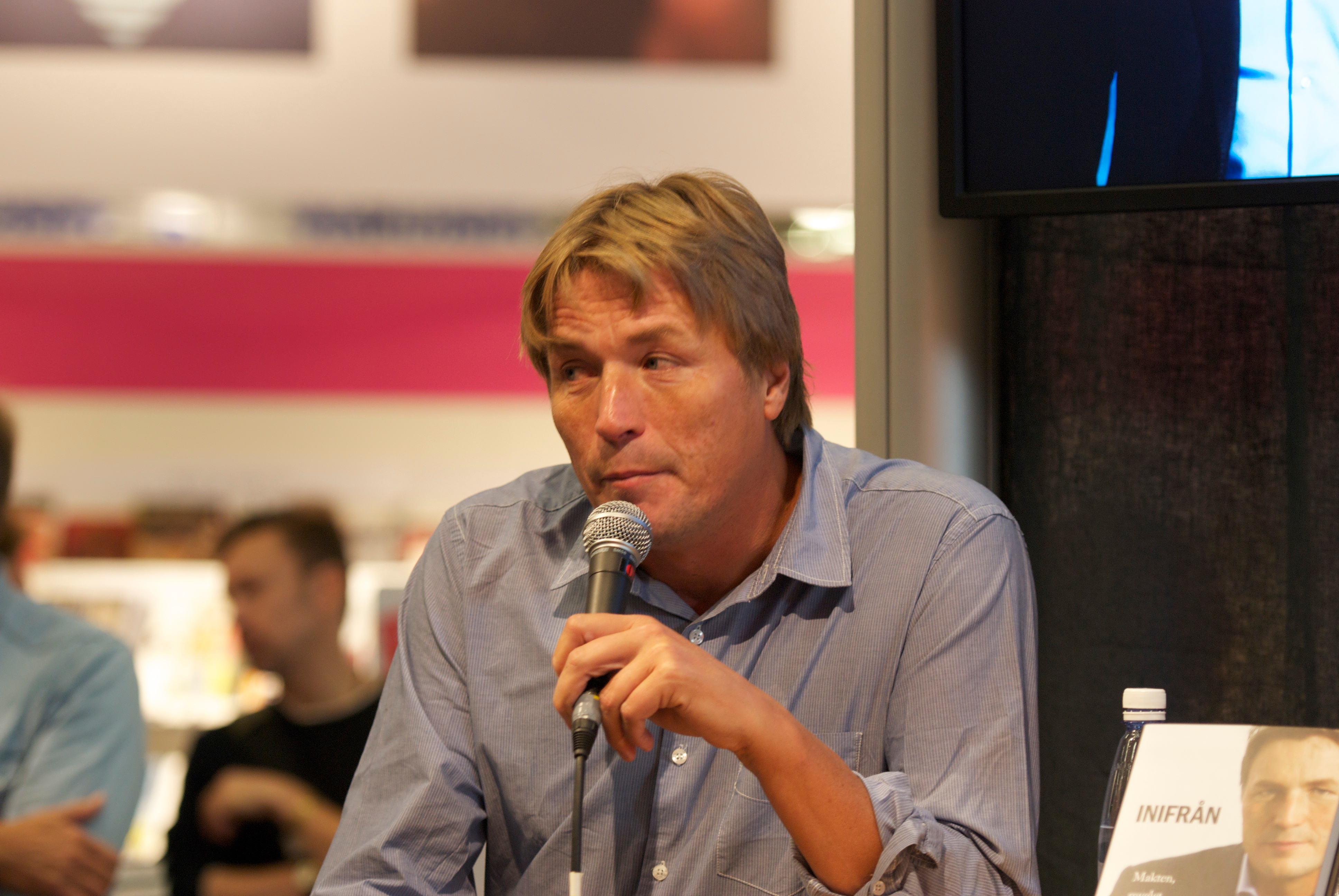 Thomas Bodström at Göteborg Book Fair 2011.